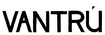 Logo of Vantrú (Disbelief), an Icelandic organisation for freethought, atheism, secular humanism and scientific skepticism, and against superstition and religion, primarily Christianity.